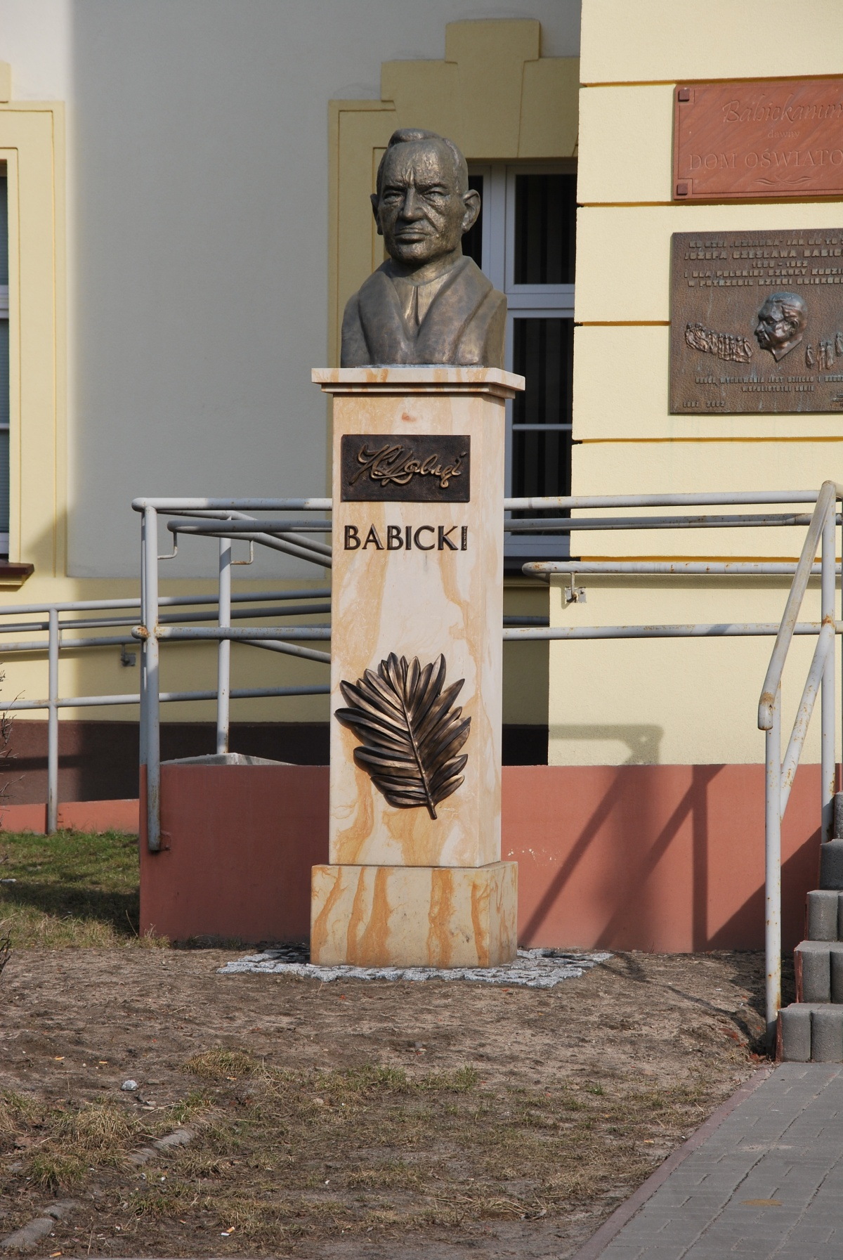 Bust of Józef Babicki (1880-1952), polish educator in Łódź